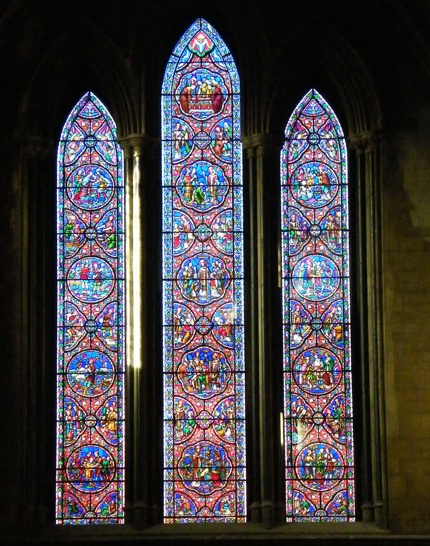 St. Patrick's Cathedral, Dublin: West window, created by William Wailes.